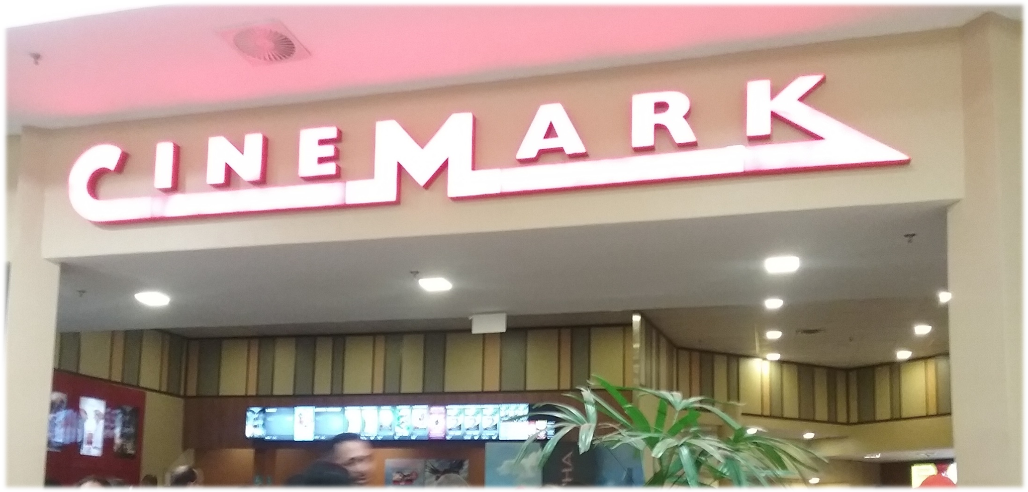 View of the façade and bomboniere of the Cinemark Jardins, in Aracaju, Sergipe.